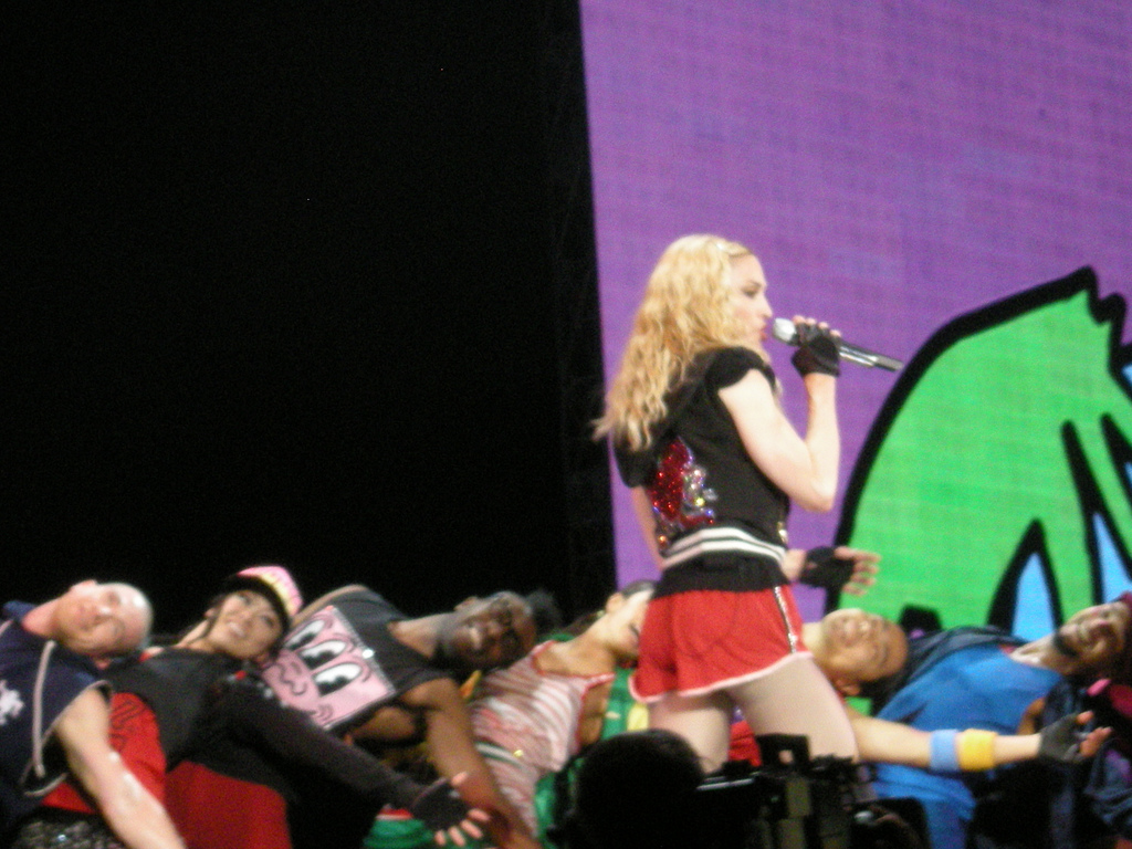 Madonna - Amsterdam ArenA - September 2, 2008